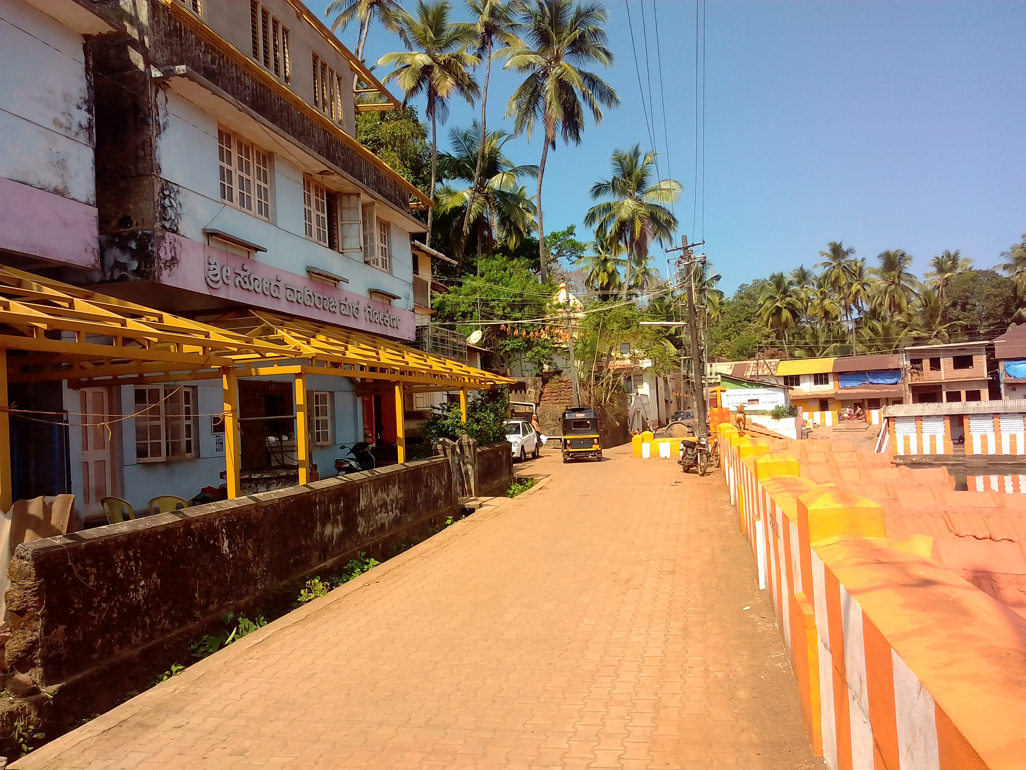 Sode matha at Gokarna village in India. This is the branch of Sode matha of Ashta matha's of Udupi